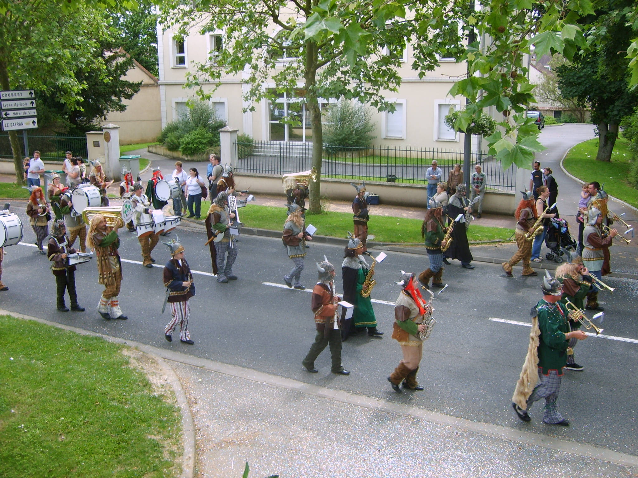 Troupe d'Asterix in Festival of the Roses in Brie-Comte-Robert